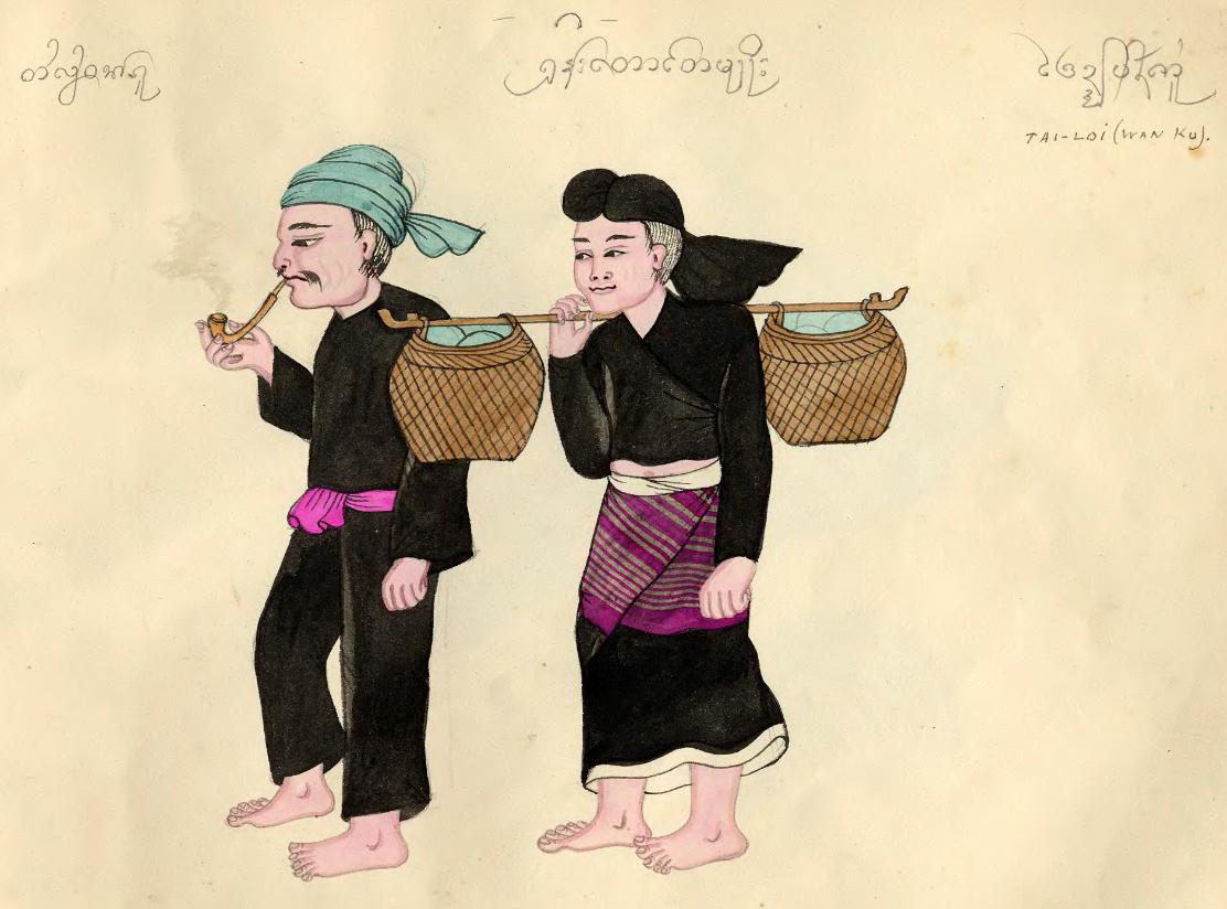 Tai Loi tribe from a Burmese handpainted color manuscript